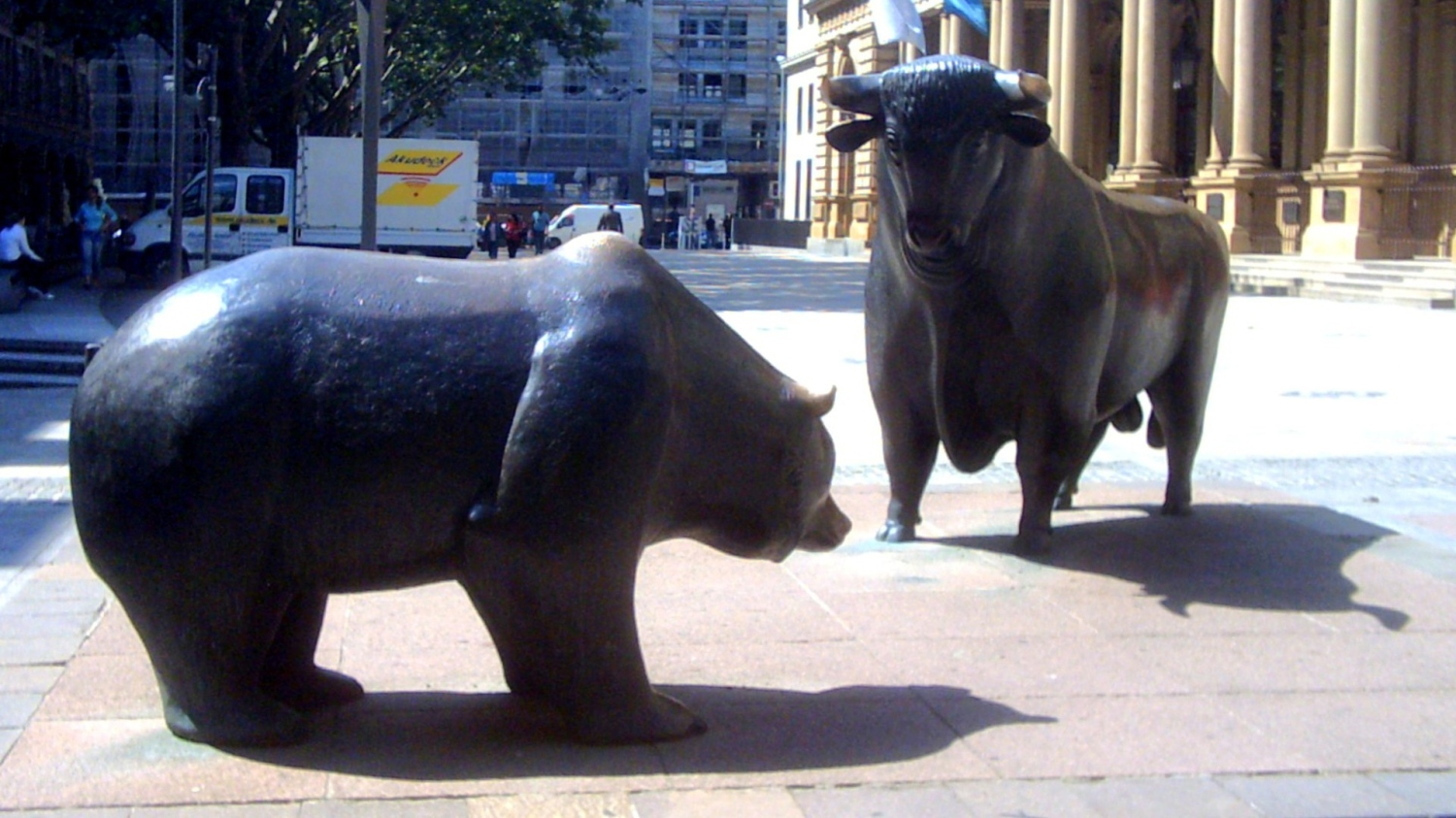 This picture shows the bull and the bear in front of the Frankfurt Stock Exchange.